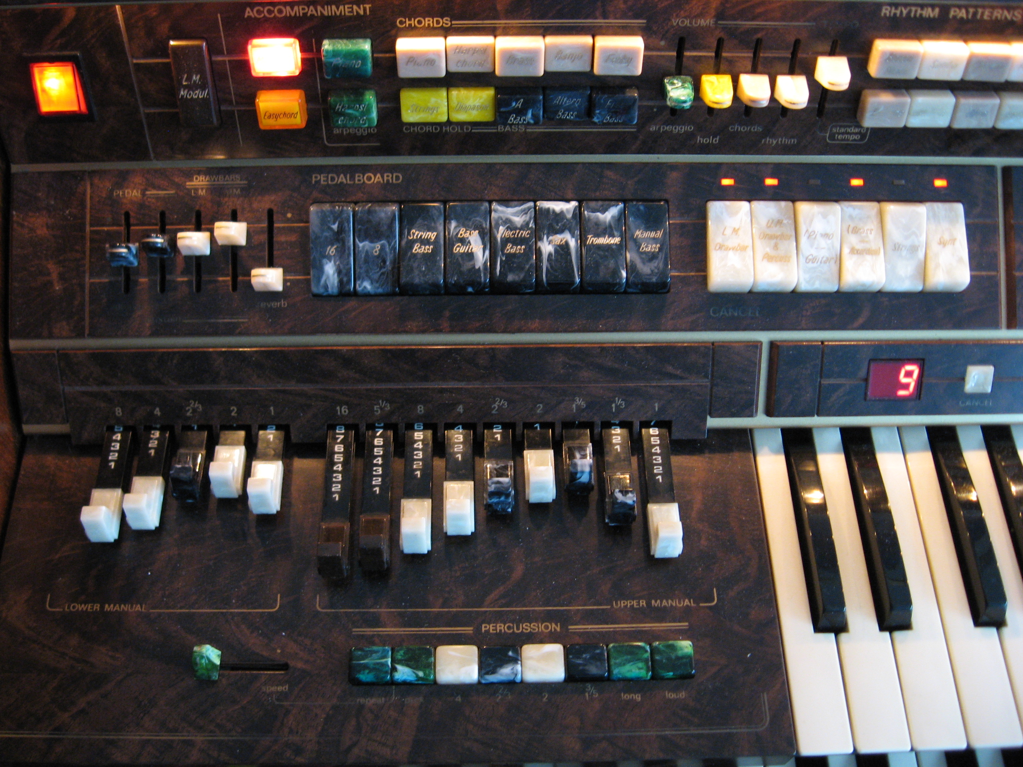 Farfisa Pergamon "Drawbars"